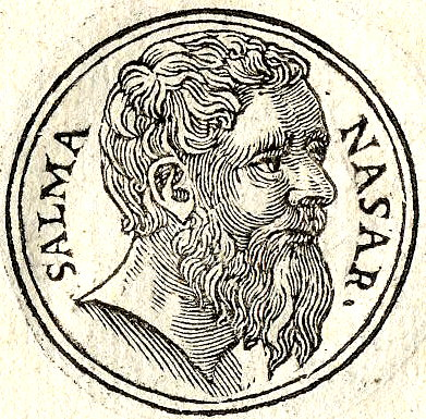 Salmanasar-Shalmaneser V was king of Assyria from 727 to 722 BC.